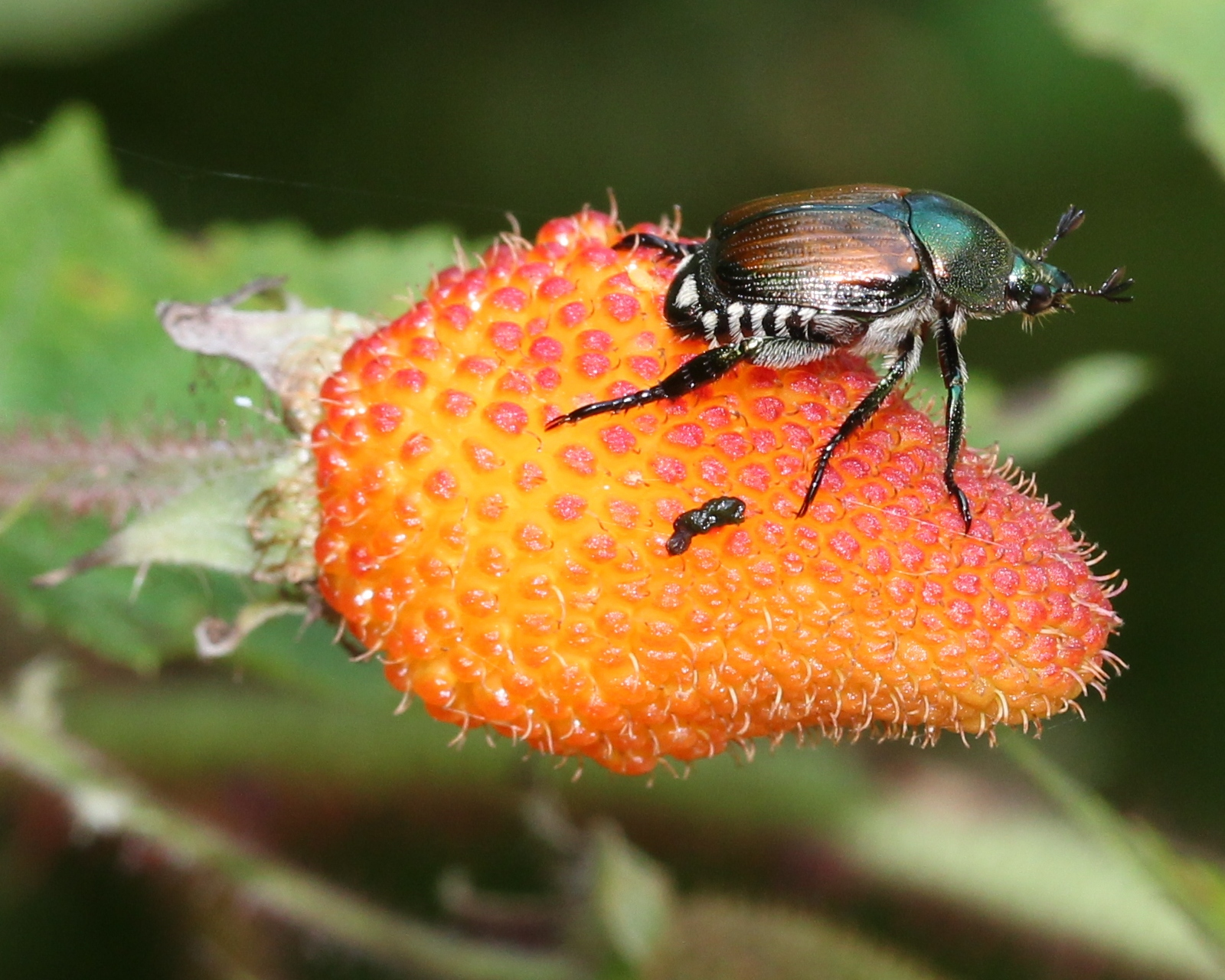 Fruits of Rubus sumatranus, In Aichi Pref., Japan.